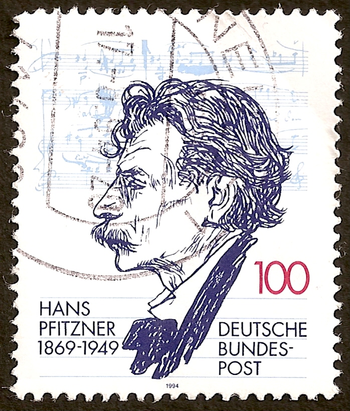 Stamp of Germany figuring composer Hans Pfitzner, issued 1994.